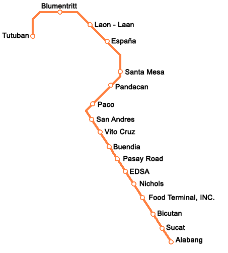 PNR stations.